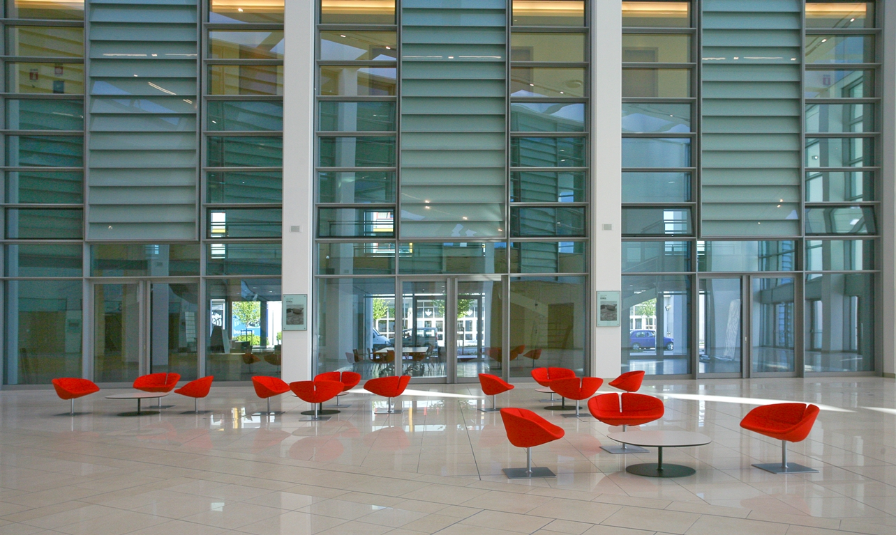 Palacongressi di Rimini Italian style furnishing